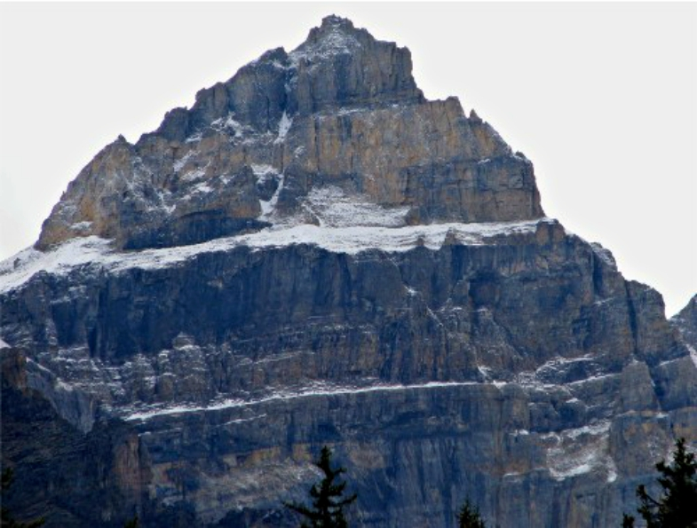 Mount Perren at Moraine Lake in the Canadian Rockies, Banff National Park